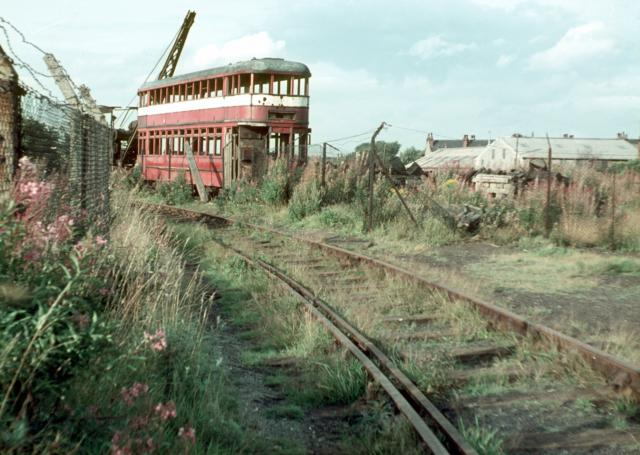 A Scrapped Tram in Leeds Scrapyard near Middleton Woods in 1967, showing the remains of an old tram. The photo was taken from the trackbed of the former tramway through the woods where it crossed the colliery railway. Trams last ran on this route in 1959. The site is now occupied by an industrial estate. The tram in the photo is a car from the Swansea-Mumbles line, acquired by the Middleton Light Railway and subesquently vandalised.